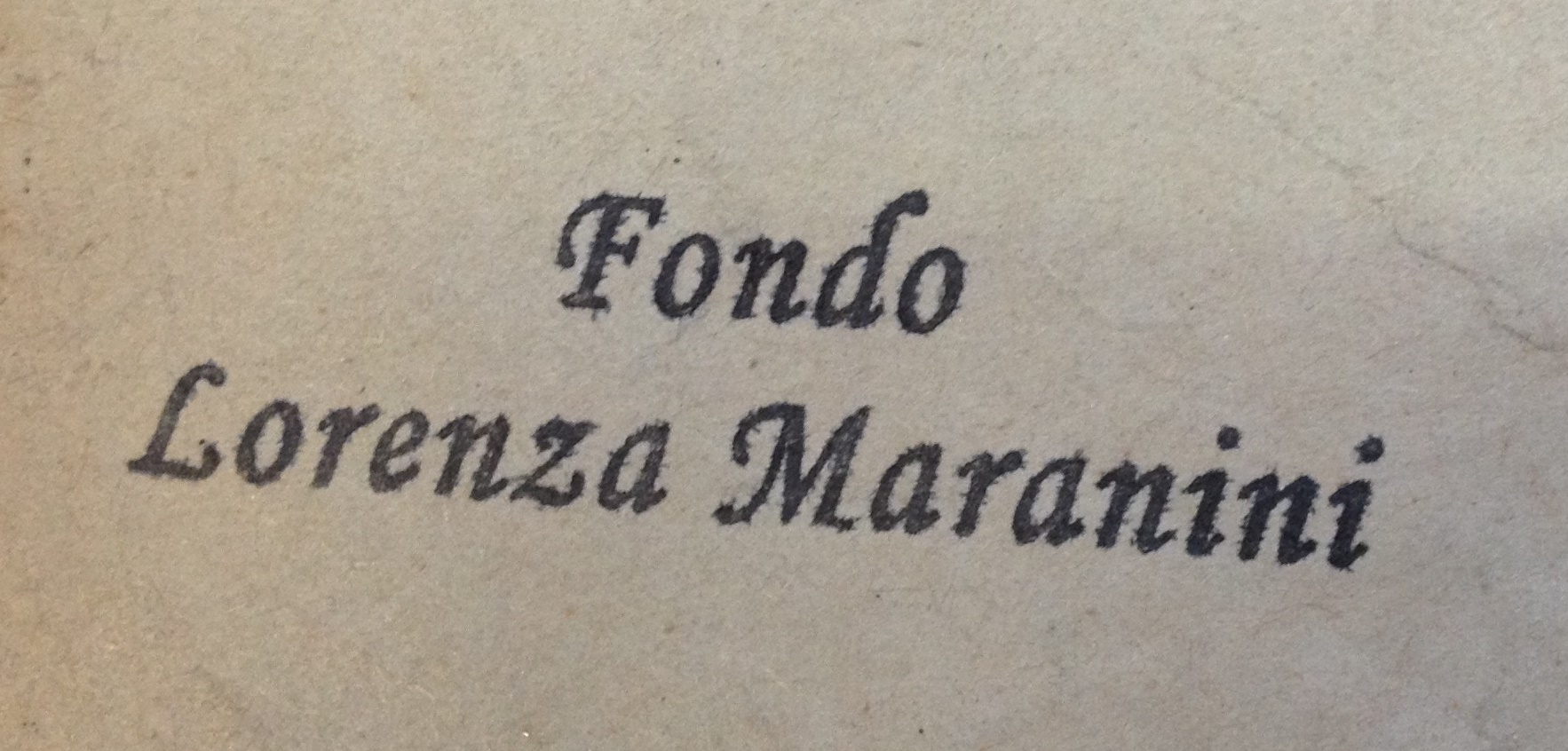 Lorenza Maranini Balconi stamp